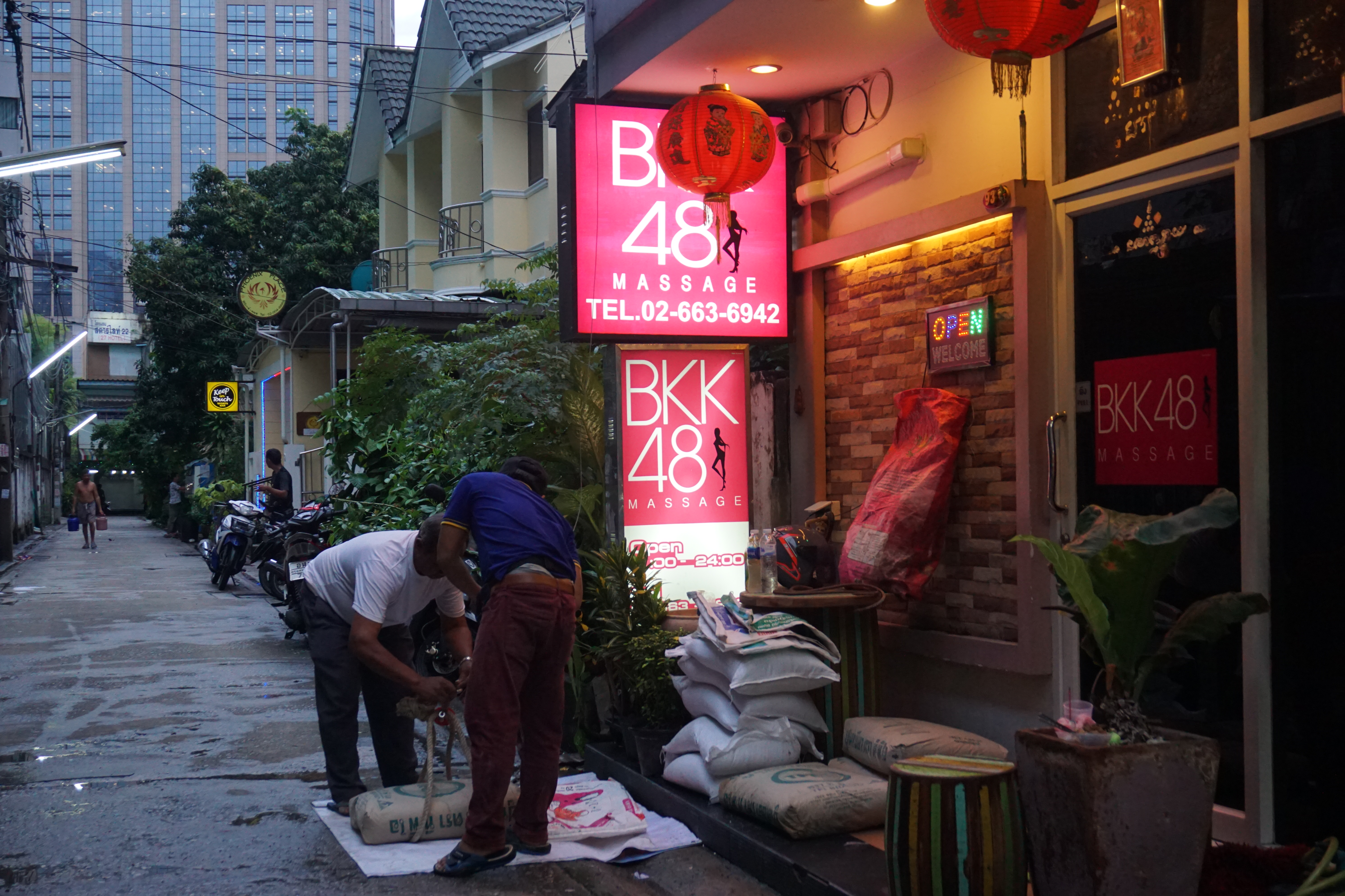 Soi Sai Nam Thip (สายน้ำทิพย์) runs 1.5 kilometres from the main Sukhumvit Road before cutting across and connecting with soi 24. It is also called "Soi Massage" for the many offers of massage services available in the soi and its side-alleys (sub-sois).